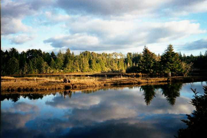 View of estuary waters, wetland, and forest at the South Slough National Estuarine Research Reserve in Oregon, United States.